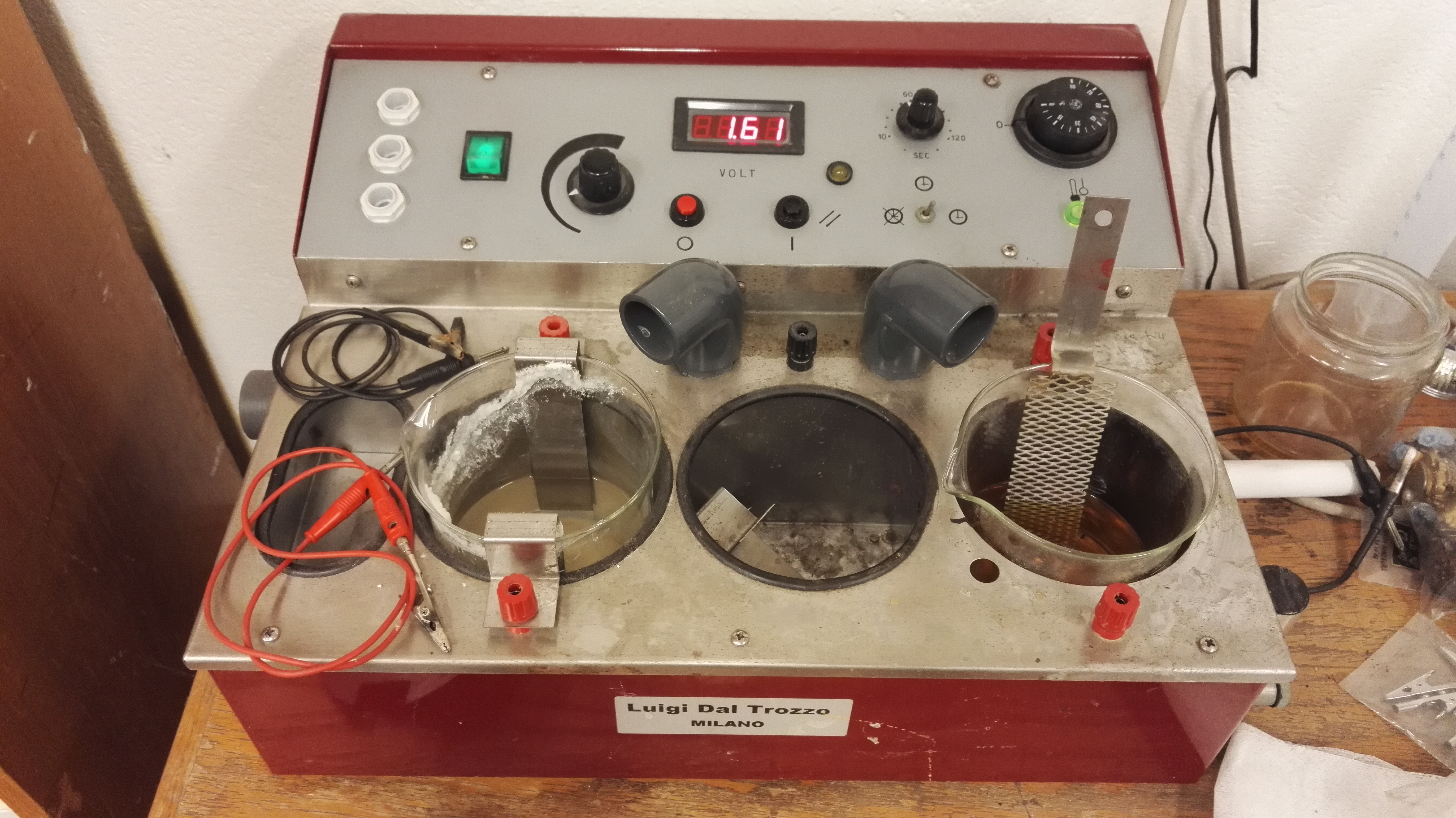 Rhodium plating